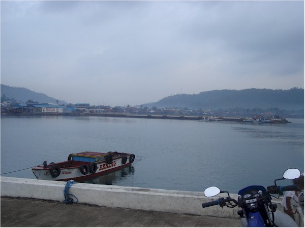 Pasacao